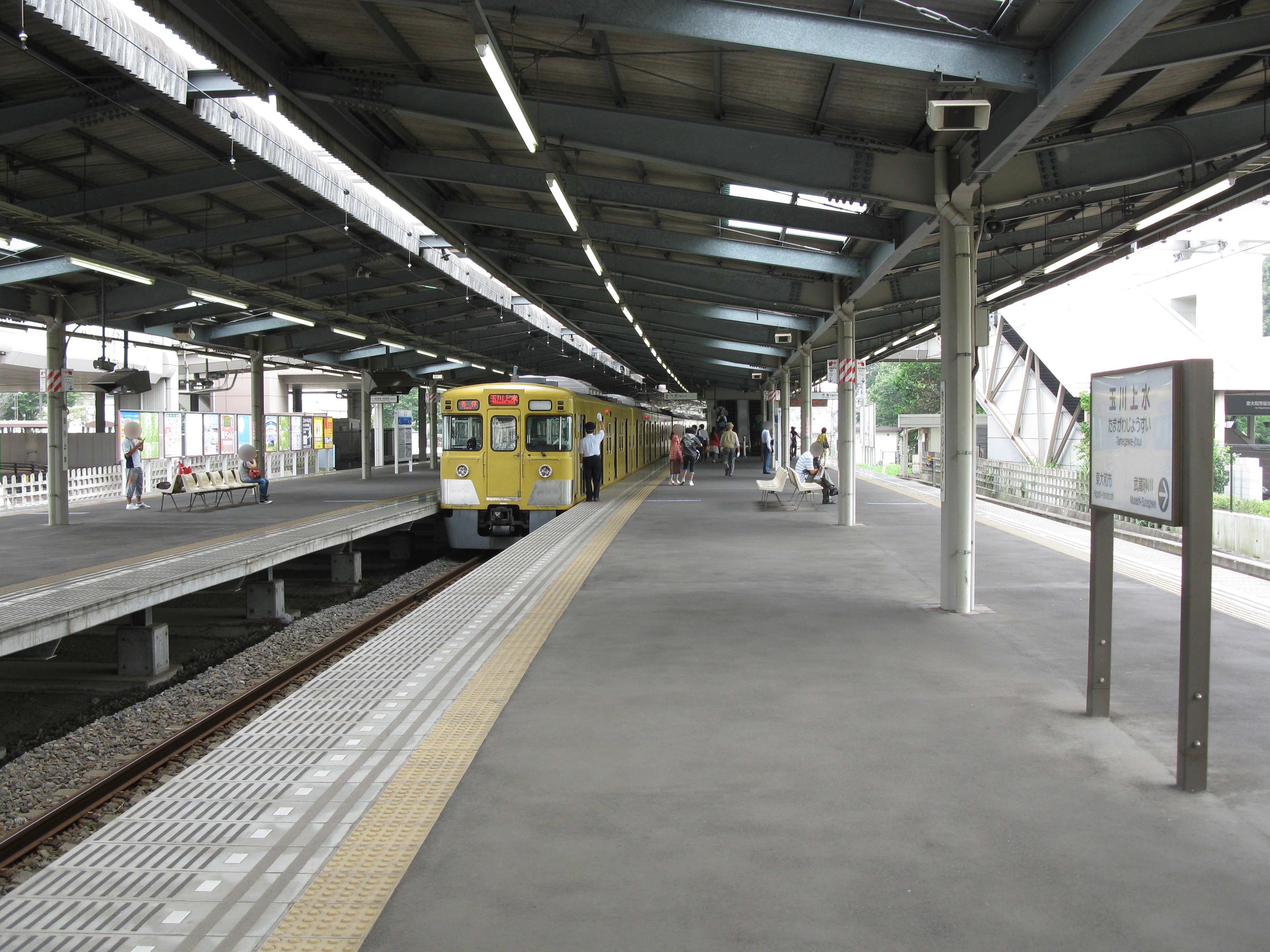 Tamagawajōsui Station platform (Seibu Railway Haijima Line)